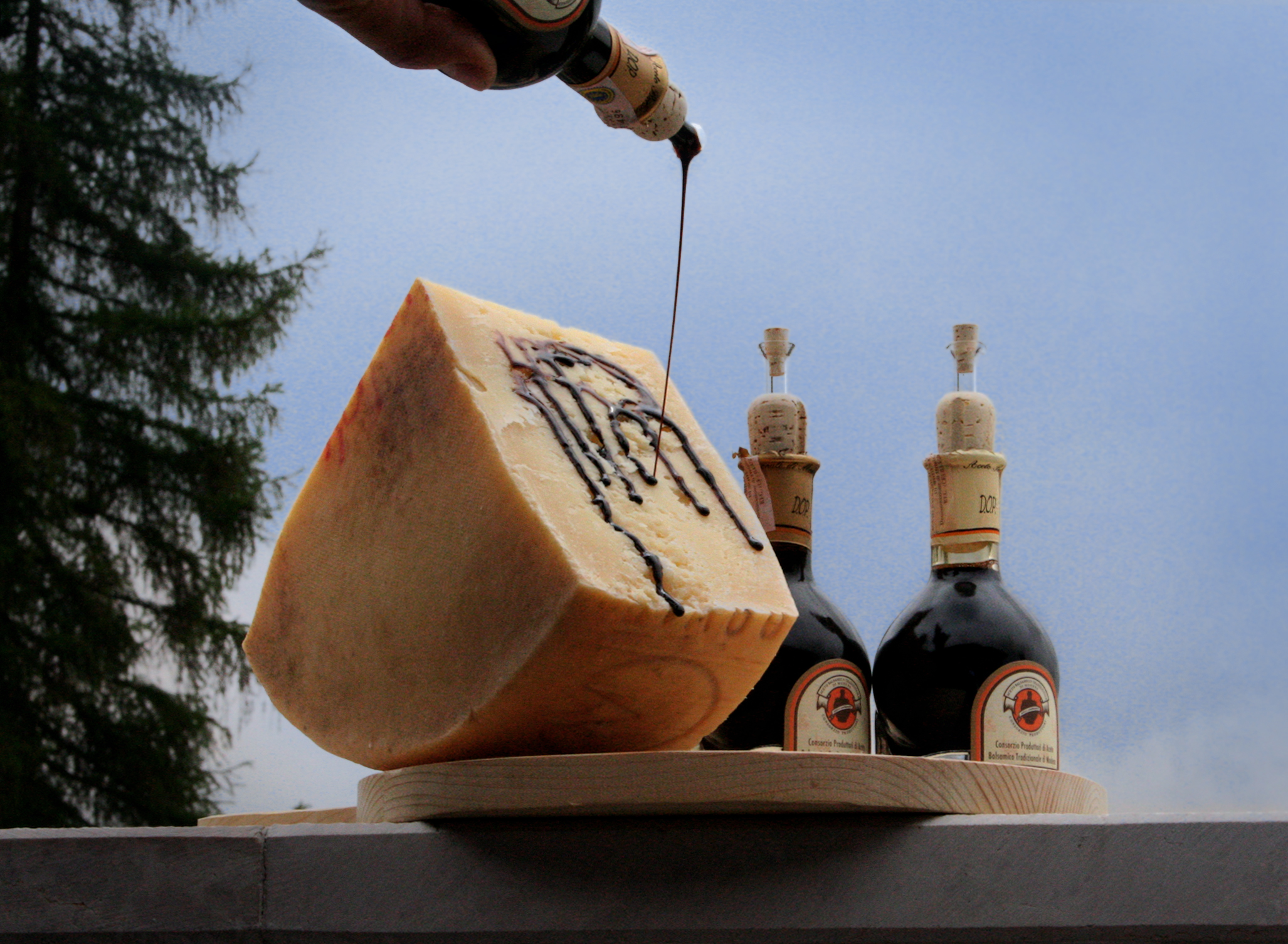 Asiago and traditional balsamic vinegar - Italy